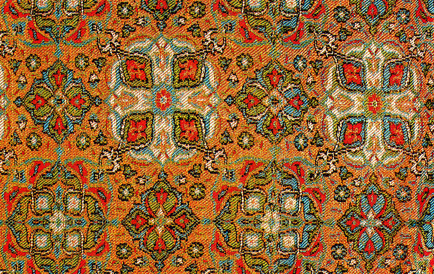 Persian Silk Brocade. Persian Textile (The Golden Yarns of Zari - Brocade). Silk Brocade with Golden Thread (Golabetoon). Texture Type: Upper Warp and Lower Warp (Brocade Daraei and Atlasi). Draw Loom. Pattern and Design: Toranj, Medallion, Torange, With Main Repeating Motif. Brocade weaver: Master Seyyed Reza Elhami. 1966 A.D. Brocade Designer (Pattern Designer): Master Mohammad Tarighi. 1966 A.D. Pahlavi Dynasty. the Ministry of Culture and Art . Honarhaye Ziba workshop.